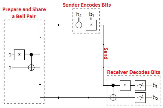 A diagram showing the process of quantum superdense coding: sharing a bell pair, encoding two classical bits by using them to control two operations on one of the parts, and performing a bell basis measurement on the pair to recover the bits.